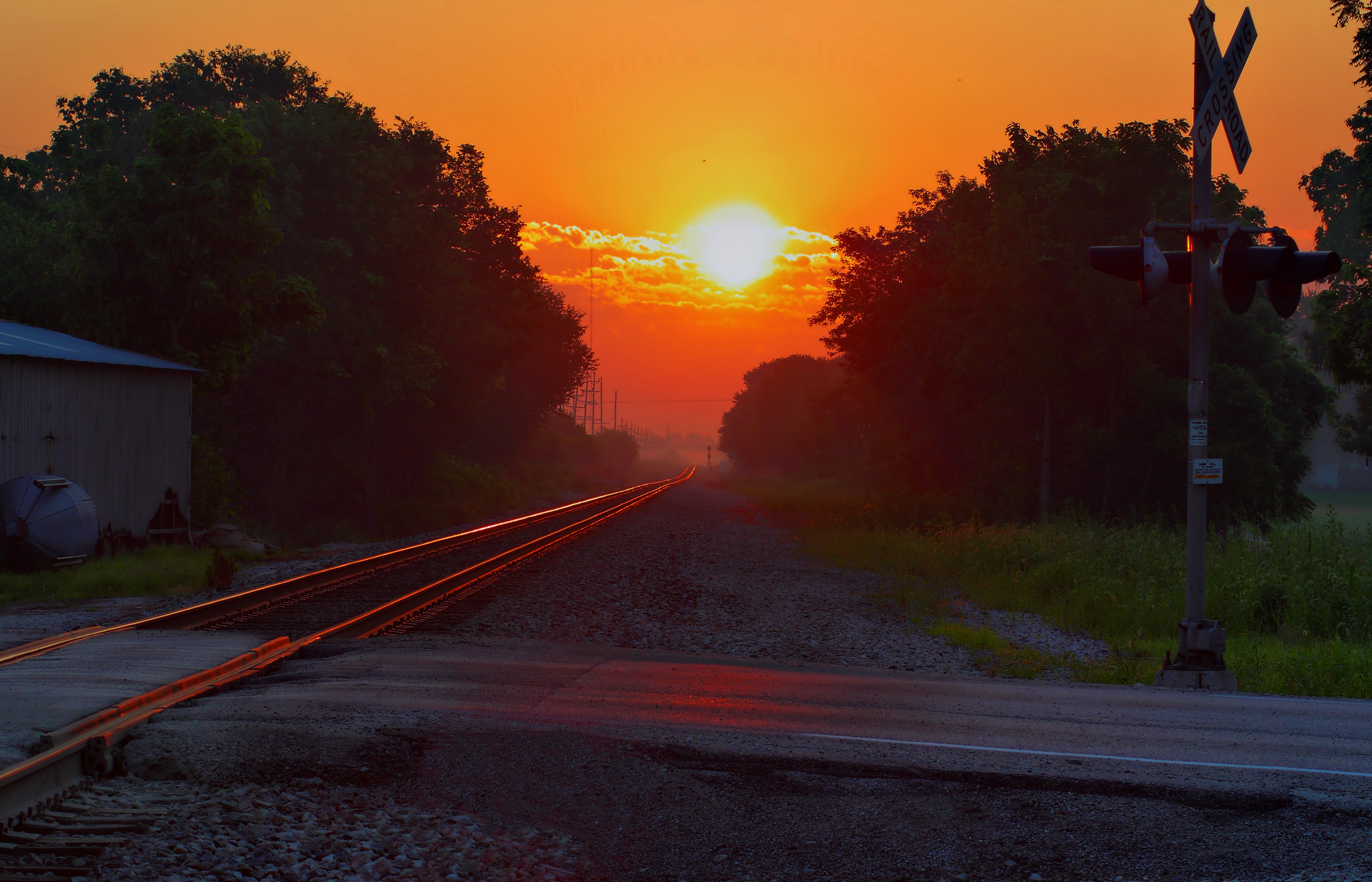 Sunrise at a railroad crossing in Buck Creek, Indiana, USA